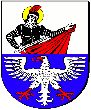 Coat of arms of Uelversheim